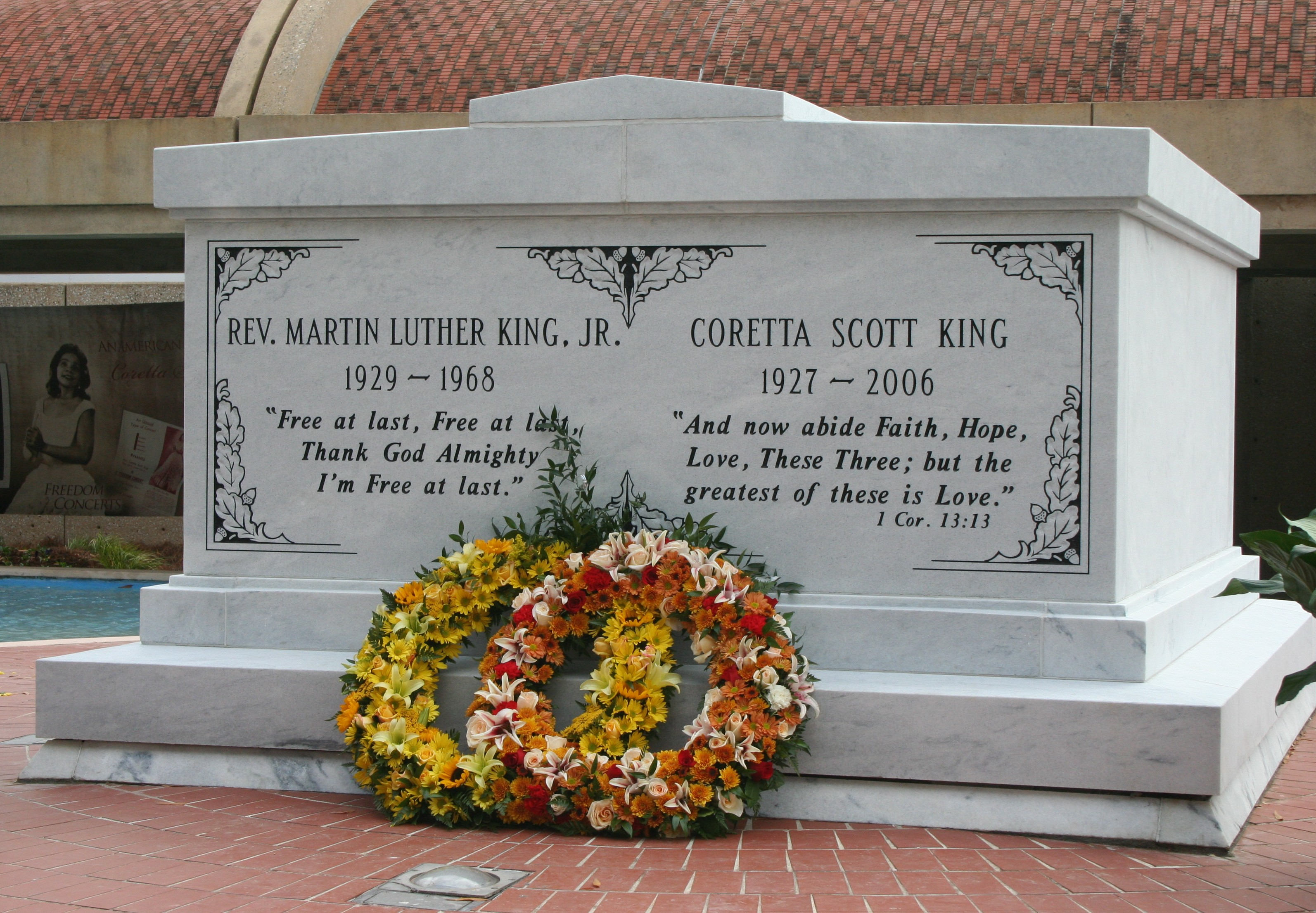 Just past noon on January 15, 1929, a son was born to the Reverend and Mrs. Martin Luther King, Sr., in an upstairs bedroom of 501 Auburn Avenue, in Atlanta, Georgia. It was in these surroundings of home, church (Ebenezer Baptist Church), and neighborhood (Sweet Auburn) that "M.L." experienced family and Christian love, segregation in the days of "Jim Crow" laws, diligence and tolerance.